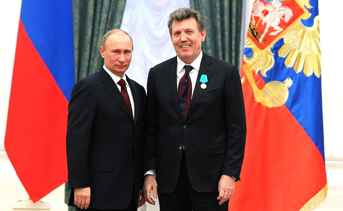 Serhiy Kivalov